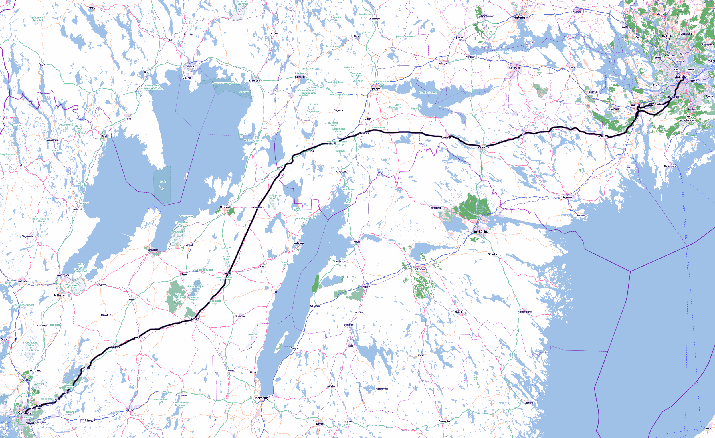 Västra stambanan, railway line Stockholm - Göteborg